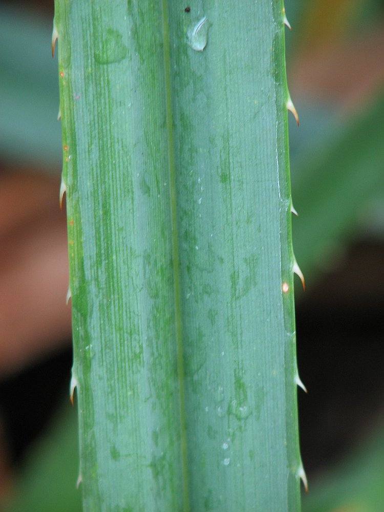 Pandanus tectorius leaf closeup with thorns